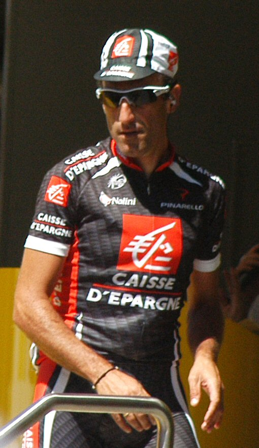 José Vicente García Acosta at the start of stage 8 in Le Grand Bornand, Tour de France 2007.